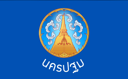 Flag of Nakhon Pathom Province